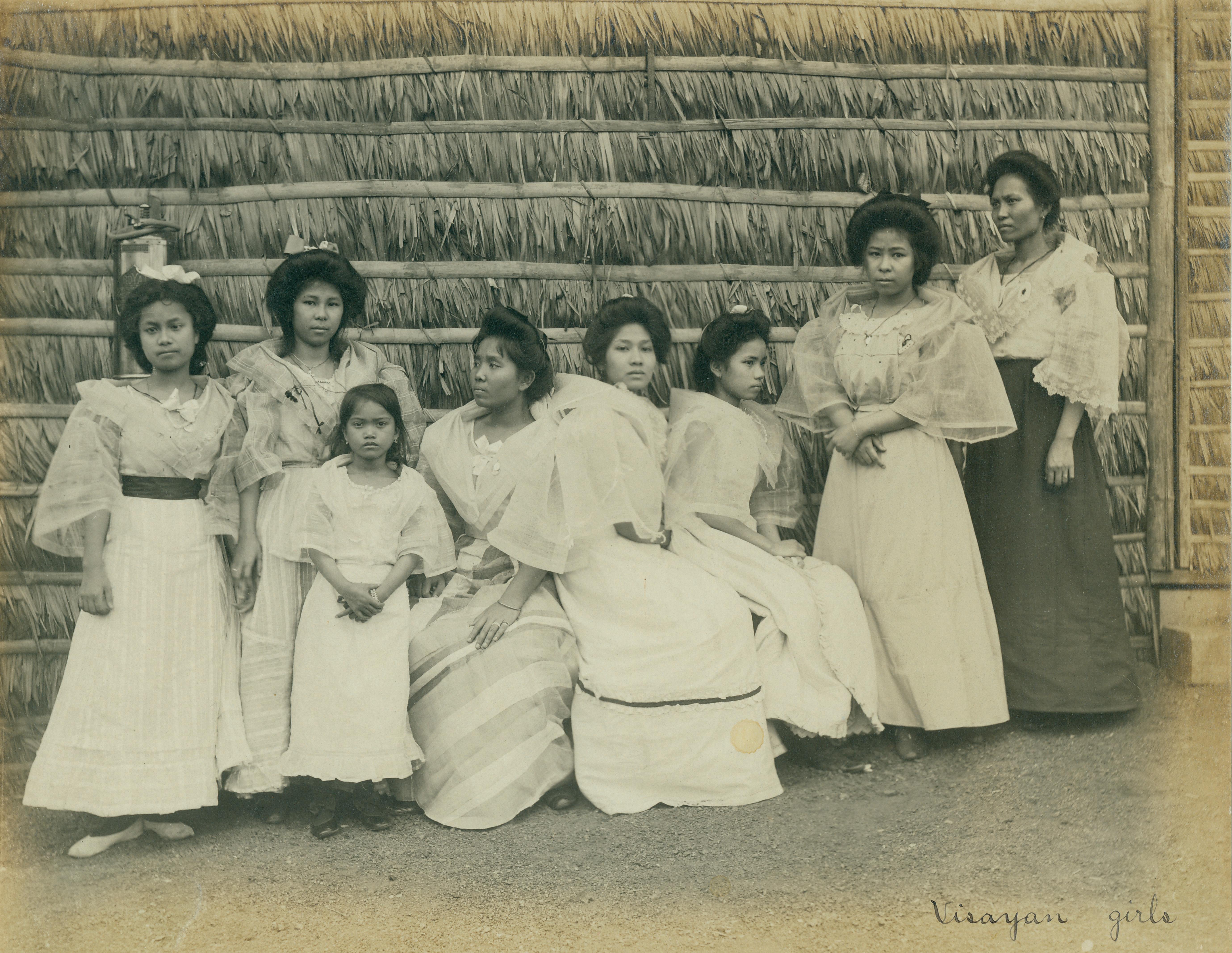 Title: Visayan Girls on the Philippine Reservation at the 1904 World's Fair.